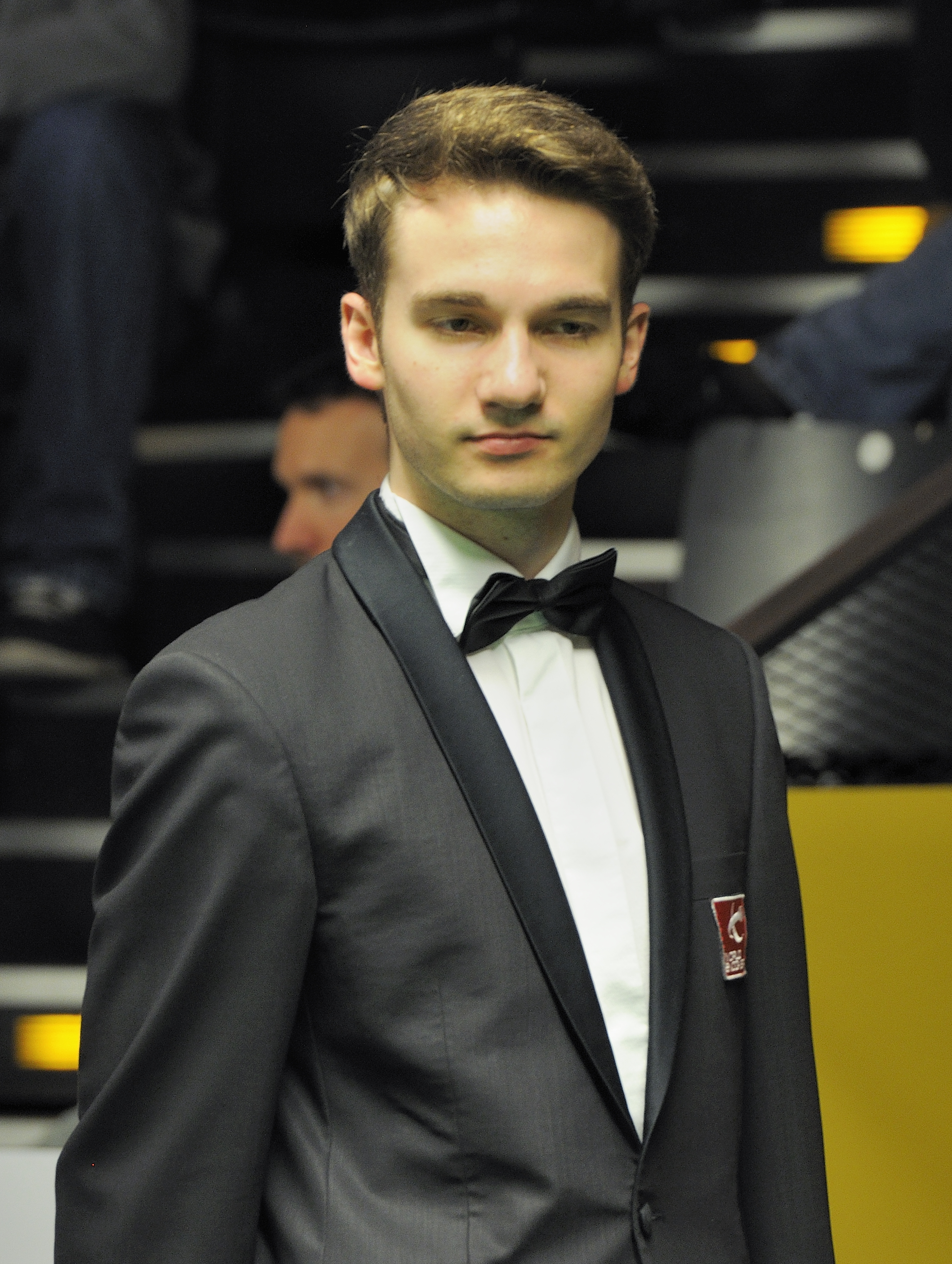 Picture taken in Berlin during the Snooker German Masters in 2013. Marcel Eckardt.